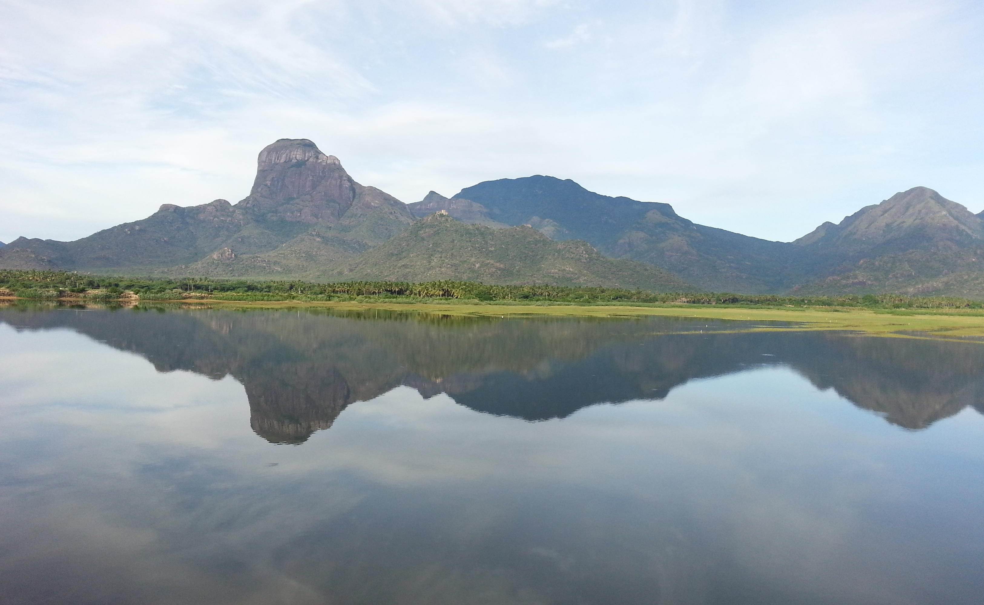 Thirukurungkudi big pond.